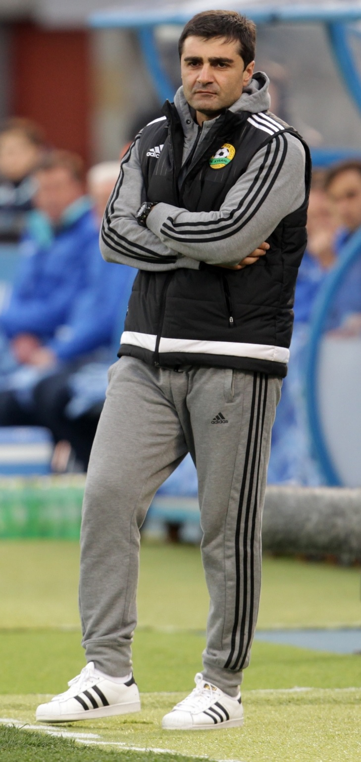 Arsen Papikyan managing FC Kuban Krasnodar in a game against FC Zenit Saint Petersburg on 28 April 2016.